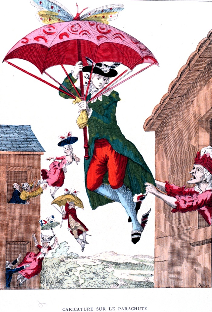 French caricature on the invention of the parachute. The picture illustrates the fear that young men and women leave their parents, in this case using the newly invented parachute.